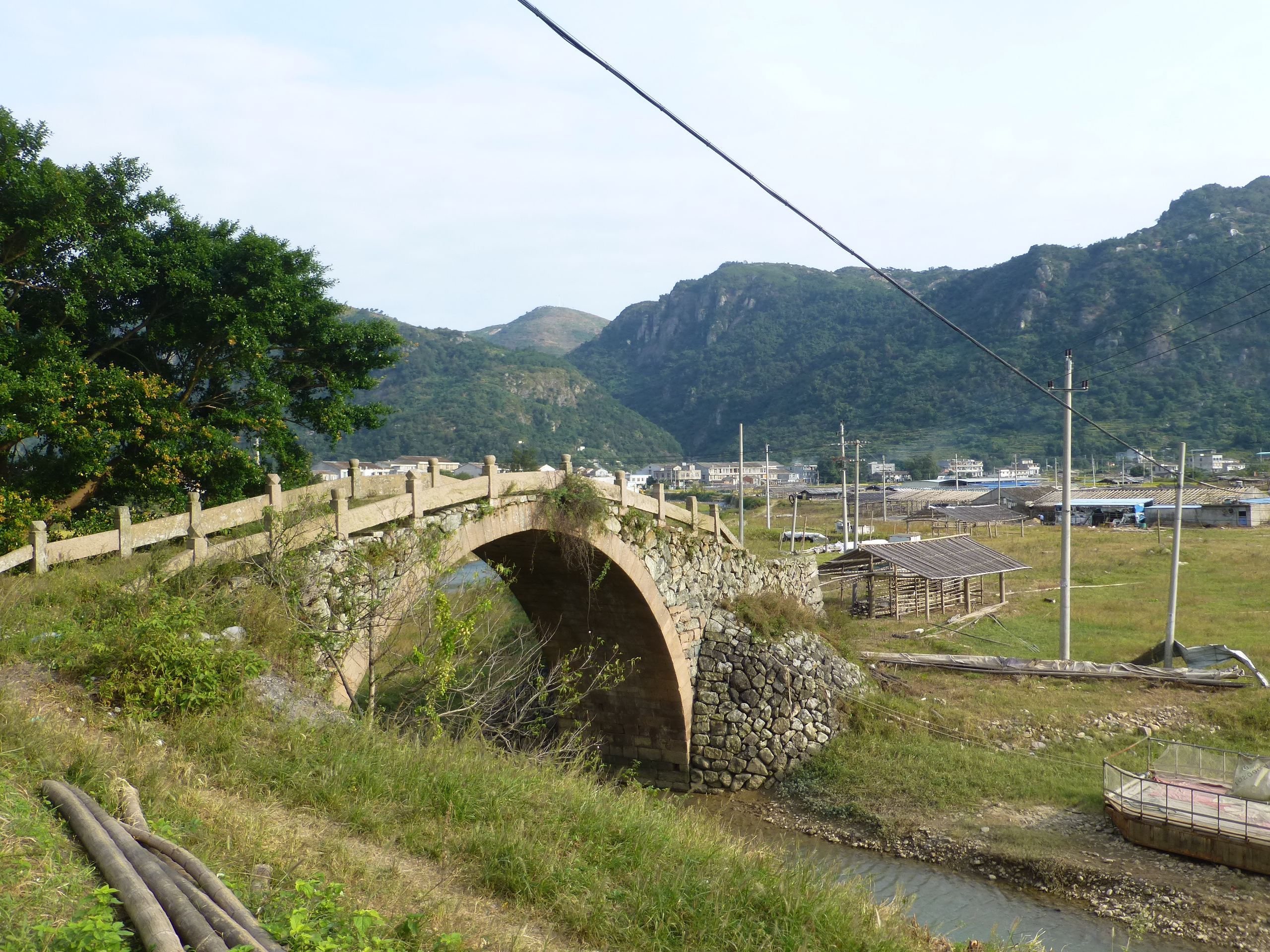 On the coast of Dayu Bay at or near Shitang Village (石塘村), in Chixi Town, Cangnan County, Zhejiang, China.